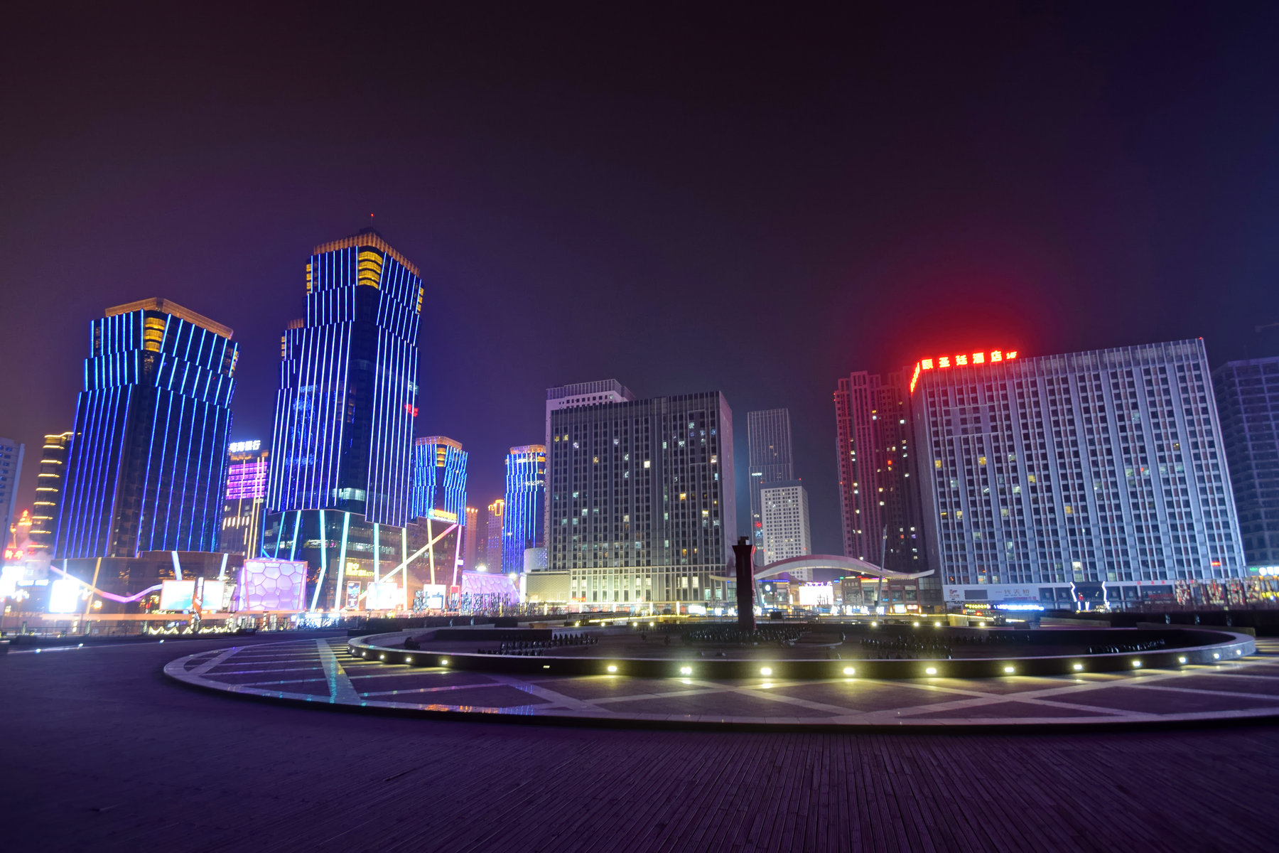 Night scene of Haihu Square, Haihu New District, Xining